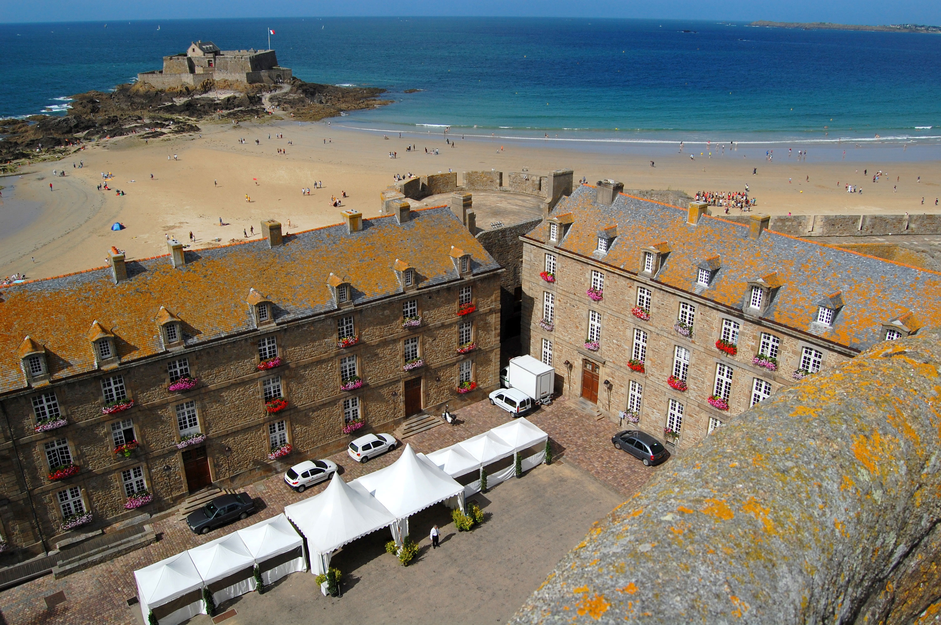 Castle of Saint-Malo (Brittany, France)